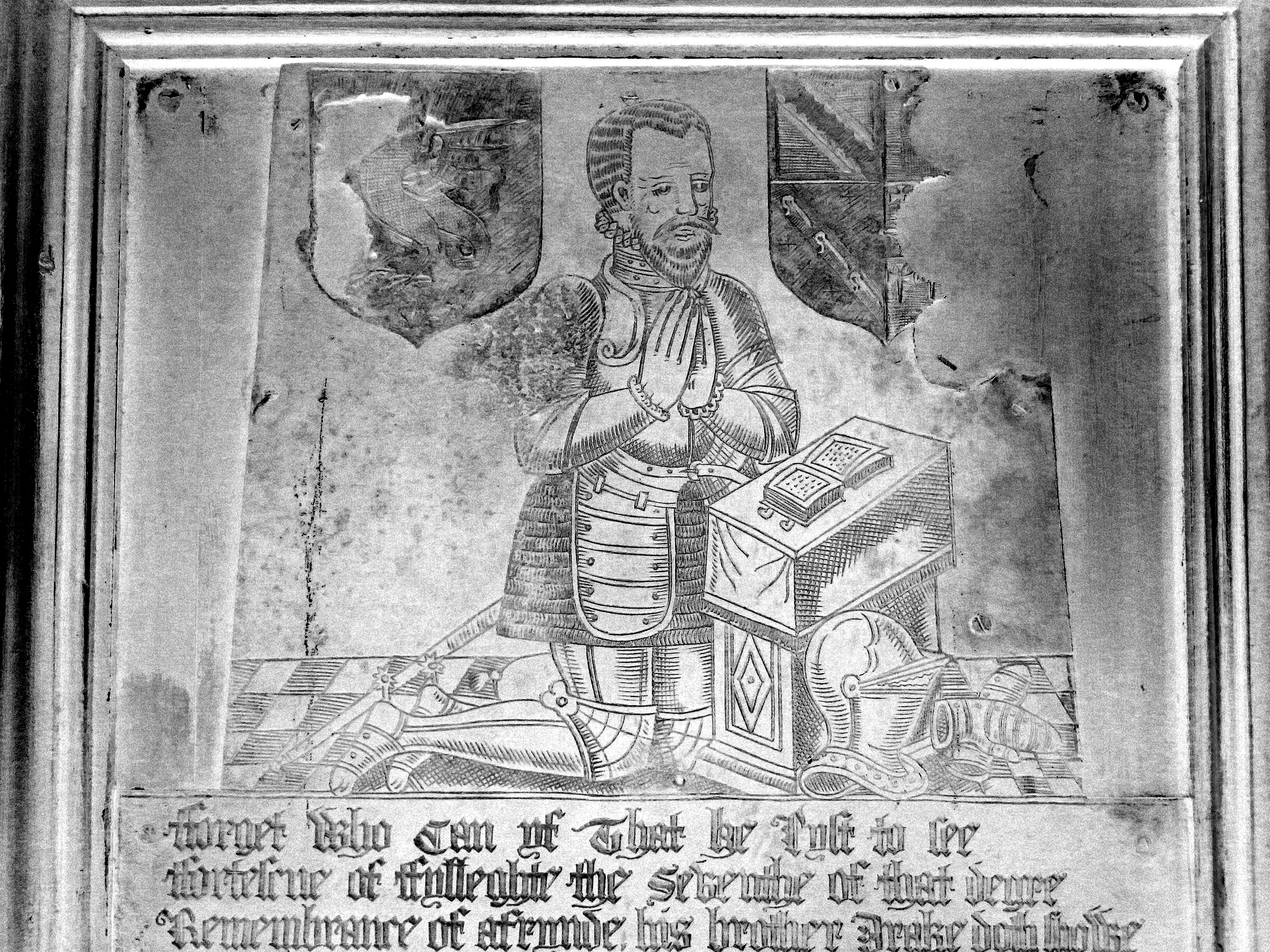 Monumental brass depicting Sir Bernard Drake (d.1586) formerly affixed to tomb-monument he had erected in memory of his brother-in-law Richard Fortescue (d.1570) in Filleigh Church, North Devon. He kneels toward the right. Arms of Drake of Ash, nr. Musbury are shown in the dexter escutcheon: A wyvern gules. The escutcheon to sinister shows the arms of his wife, Gertrude Fortescue. A matching brass of similar form, from the same monument, depicting Richard Fortescue exists in the same church, kneeling to the left. The inscription in Gothic lettering below is as follows: (Quoted in: Nichols, John Gough, The Herald and Genealogist, Vol. 8; Friend, Hilderic, Bygone Devonshire; Lysons, Magna Britannia, Vol. 6, 1822, Antiquities: Ancient Church Architecture) "Forget who can yf that he lyft to see, Fortescue of ffylleghie the seventhe of that degre, Remembrance of a frynde his brother Drake doth showe, Presentinge this unto the eyes of moo, (more) Hurtfull to none and fryndlye to the moste, The erthe his bones the heavens possese his goste. Richard ffortescue died at Filleghie ye last day of June 1570".